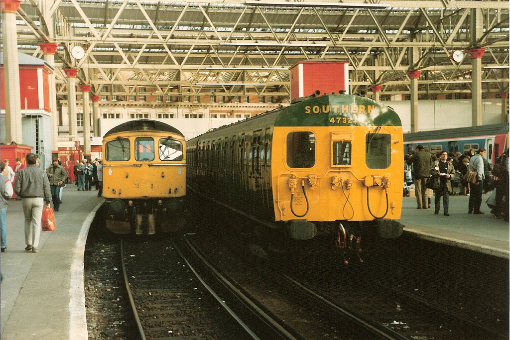 Unidentified BR Class 33/0 with preserved BR Class 405 4-SUB EMU no. 4732 at London Waterloo, 22 November 1986